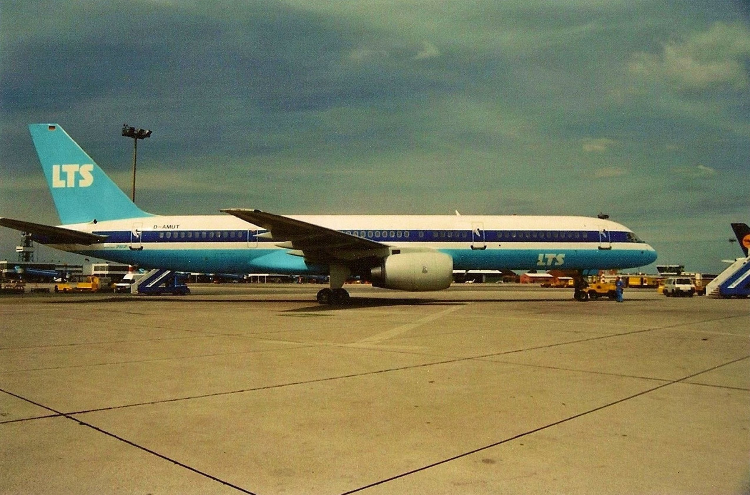 LTS – Lufttransport Süd Boeing 757 D-AMUT Munich Riem 1987